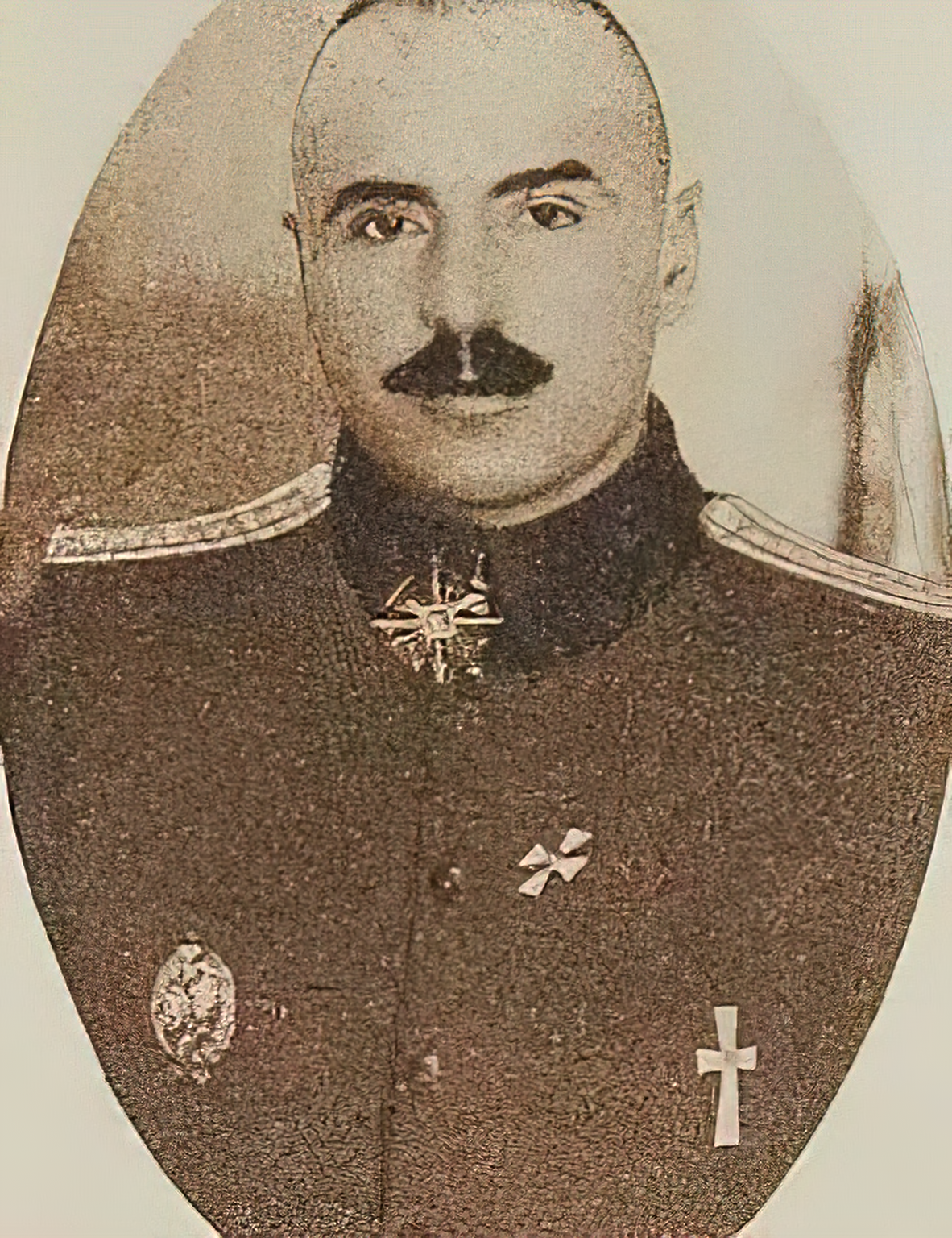 General Jaques Bagratuni, 1919.